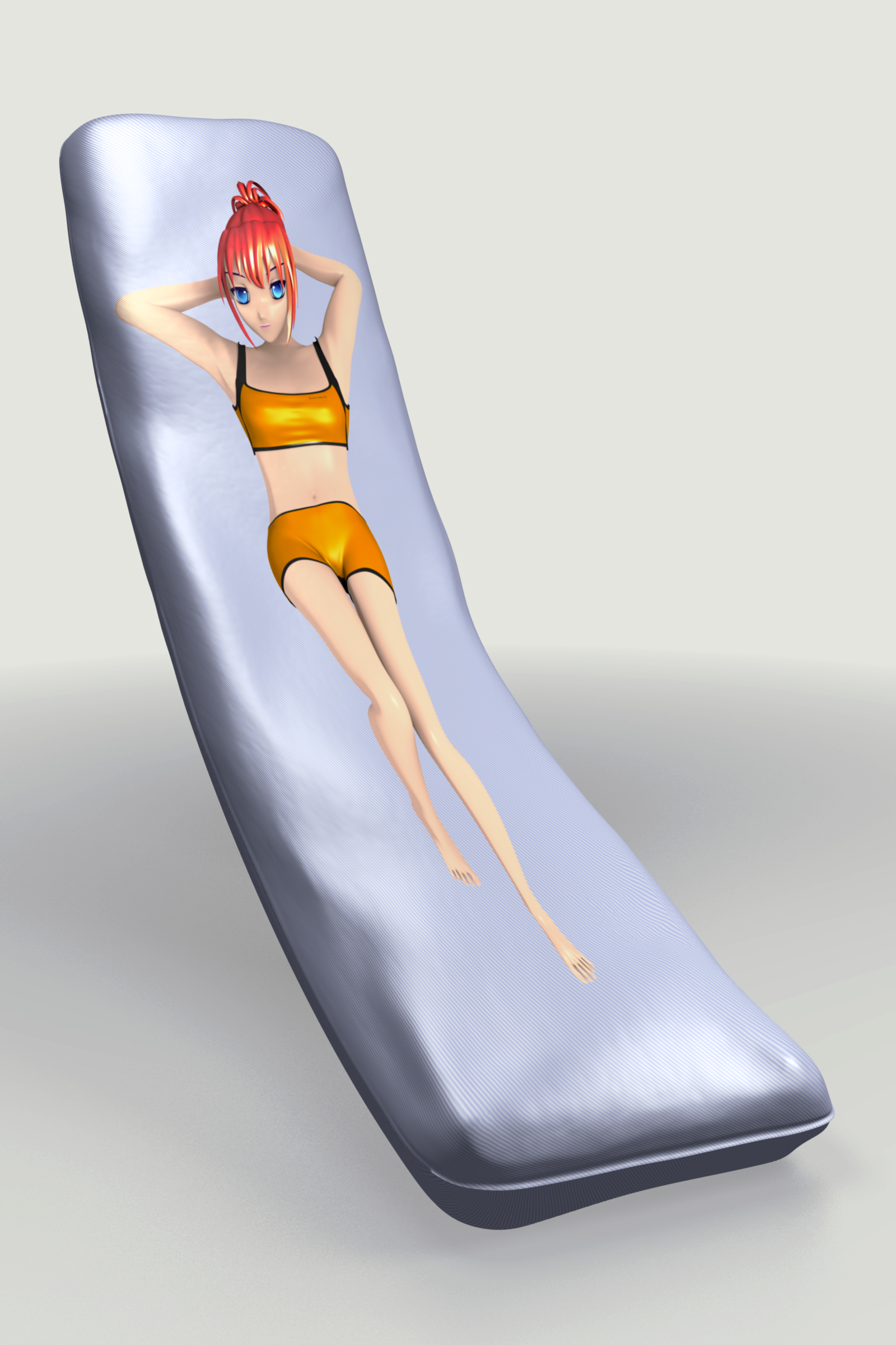 A drawing to illustrate the article Dakimakura.